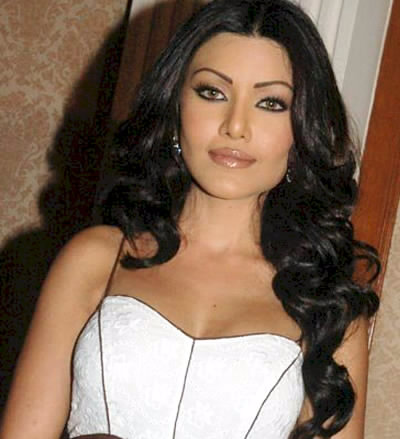 Koena Mitra at the audio Release Of Apna Sapna Money Money